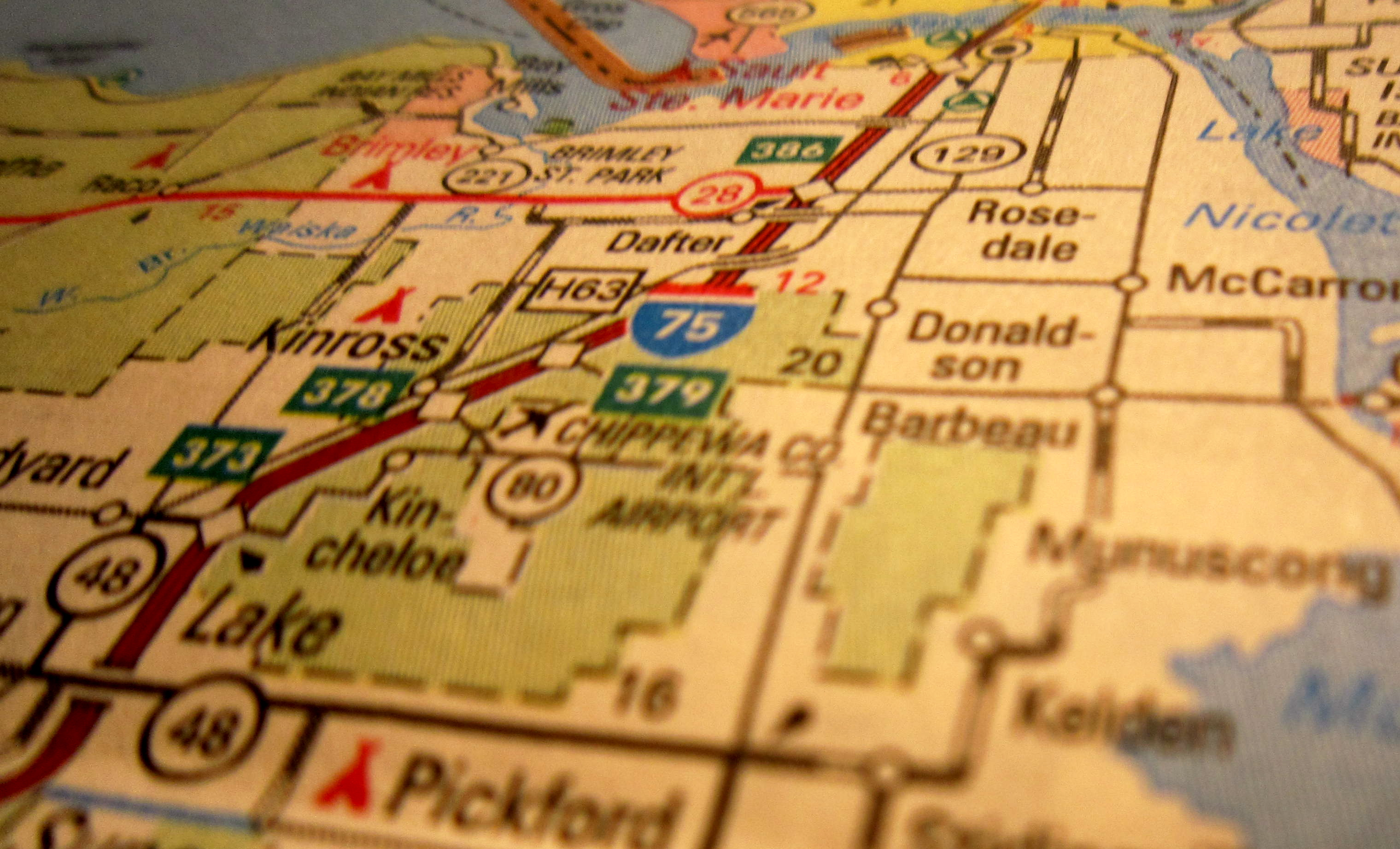 Photo of a map with directions and routes.